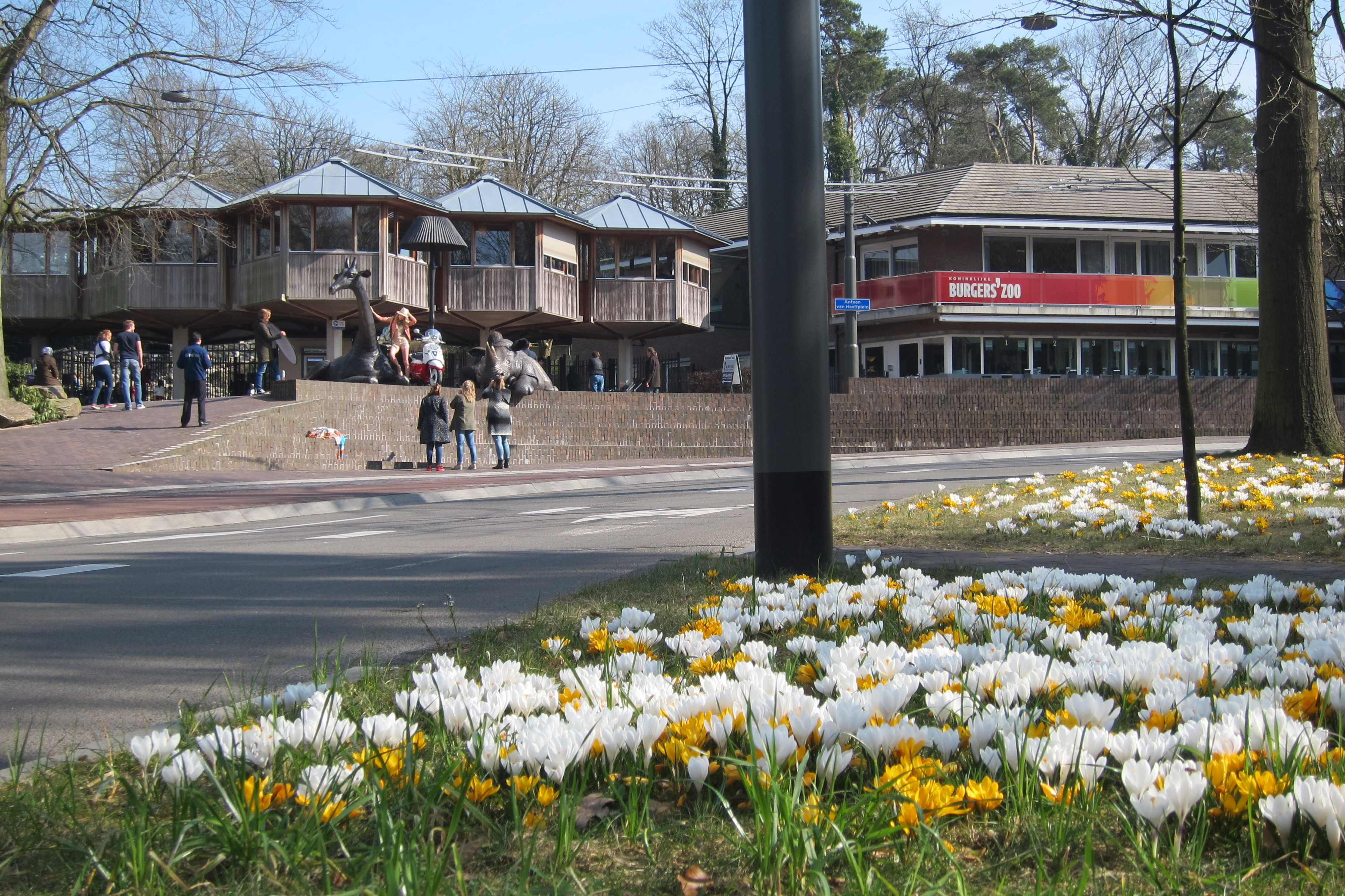 Springtime at the entrance of Burgers Zoo Arnhem/Schaarsbergen at 19 March 2015